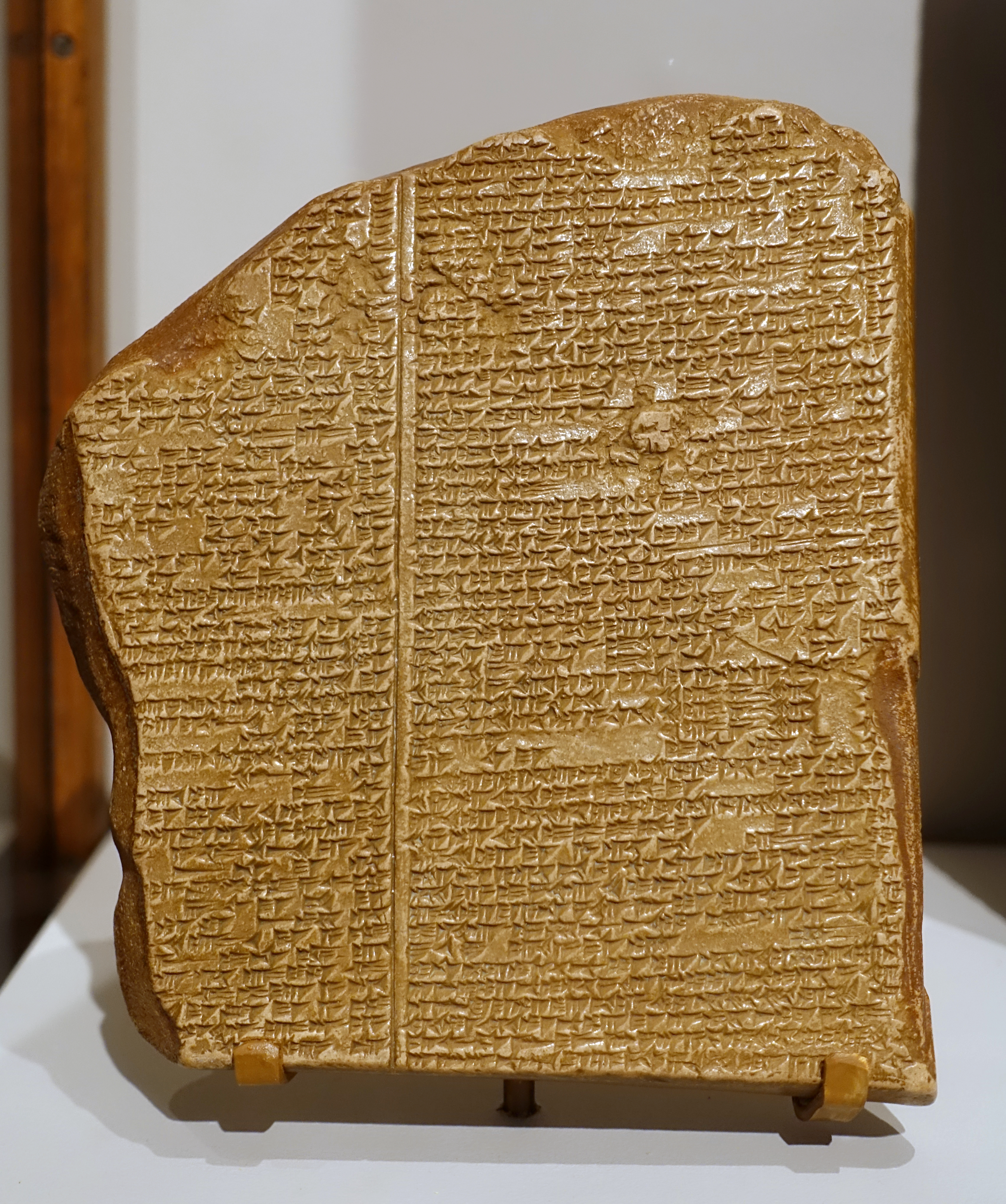 Exhibit in the Harvard Semitic Museum, Harvard University - Cambridge, Massachusetts, USA. This work is old enough so that it is in the public domain.